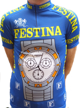 Shirt Festina Cyclingteam